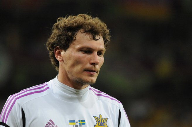 UEFA Euro 2012 match between Ukraine and Sweden that took place in Kiev. Final result was 2:1 (2xShevchenko - Ibrahimović)